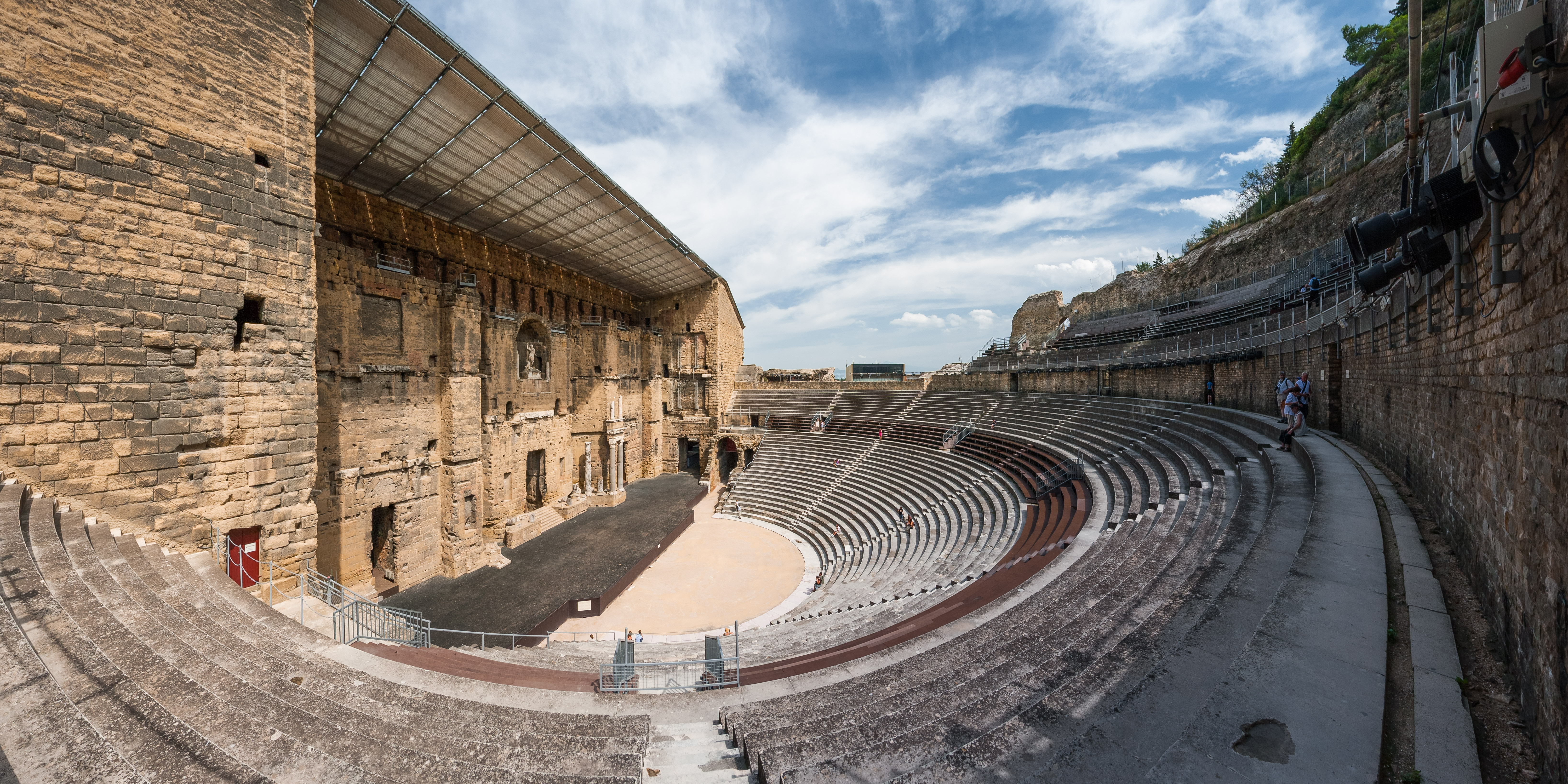 Panoramic view of the roman theatre in Orange, south of France, as of 2008. This picture has a FOV of ~180°.